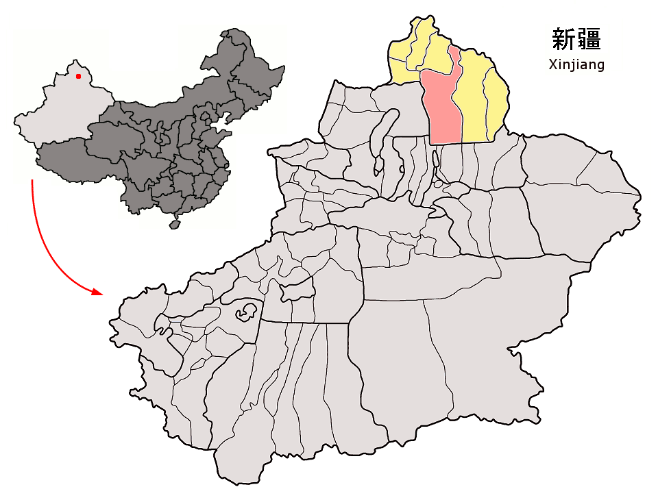 Location of Fuhai County (pink) and Altay Prefecture (yellow) within Xinjiang autonomous region of China Map drawn in september 2007 using various sources, mainly : Xinjiang Uygur autonomous region administrative regions GIS data: 1:1M, County level, 1990 Xinjiang Counties map from